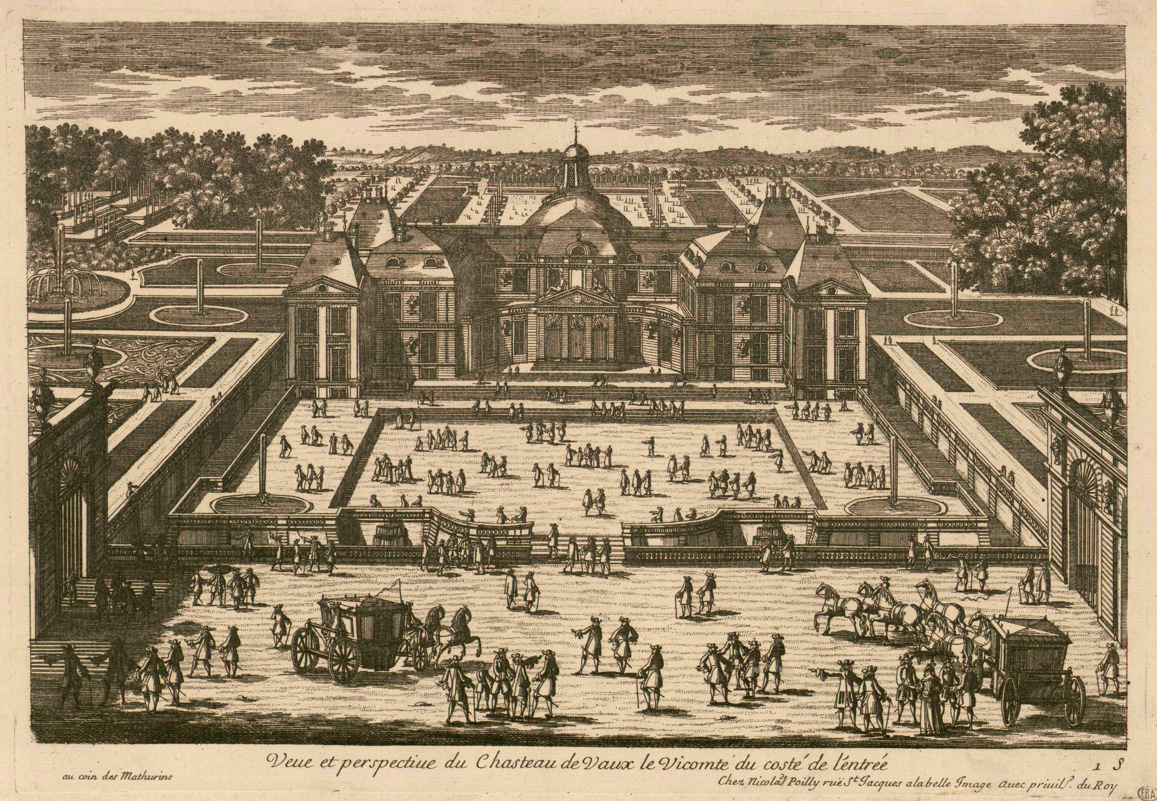 Anonymous engraving of the entrance front of the Château de Vaux-le-Vicomte